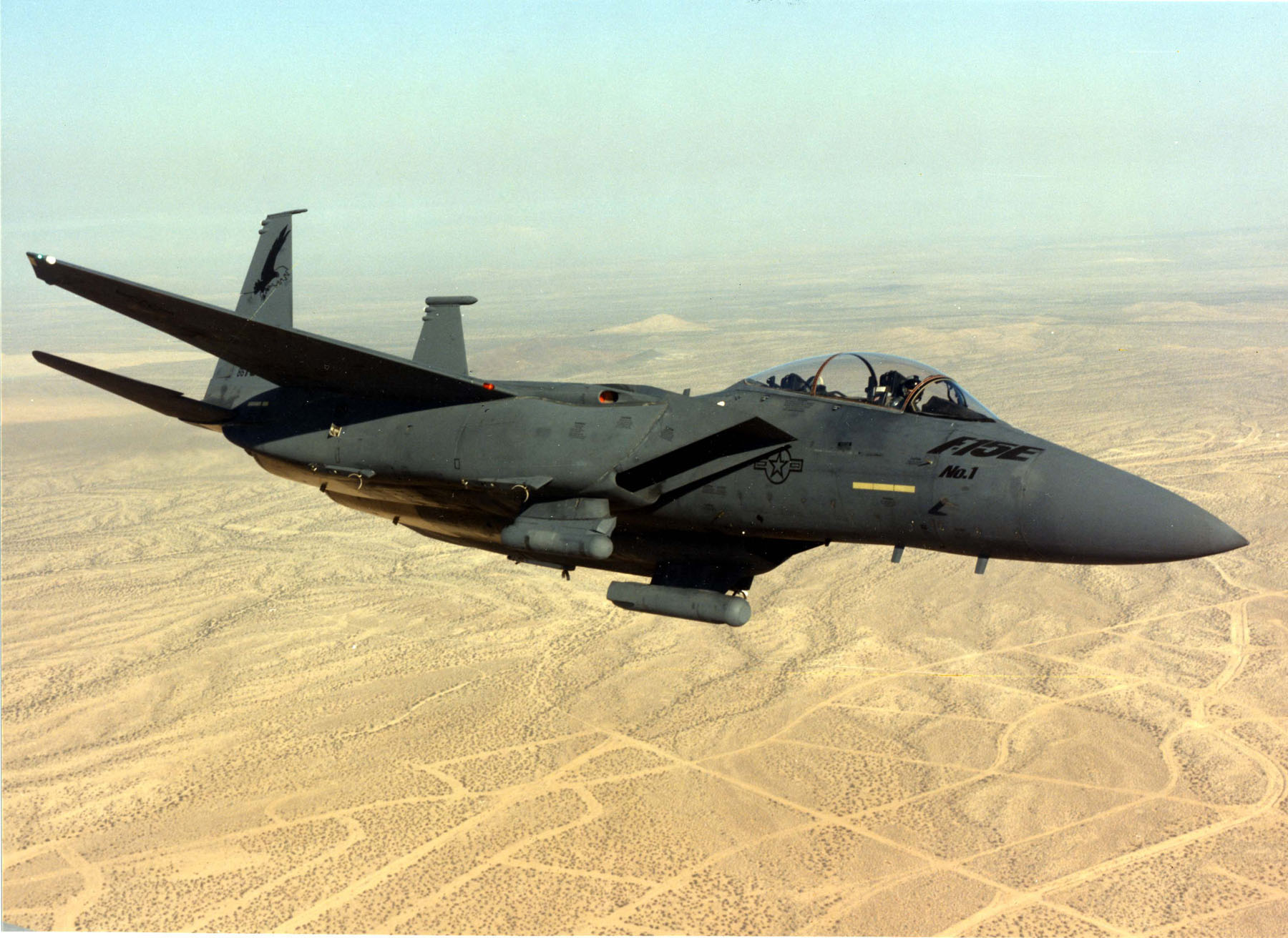 McDonnell Douglas F-15E First production F-15E (SN 86-0183) in flight